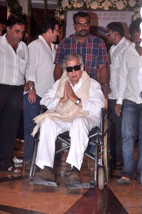 Shashi Kapoor at Rajesh Khanna's prayer meet